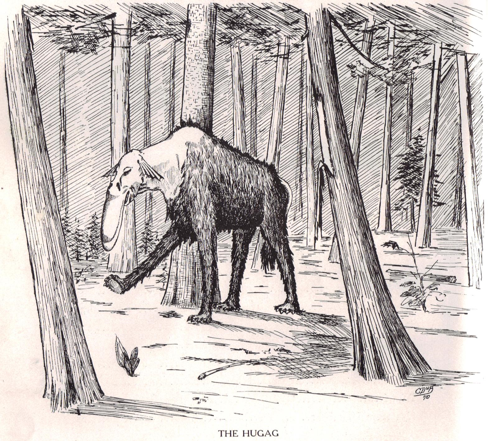 A scan I did from, "Fearsome Creatures of the Lumberwoods" by William T. Cox. As illustrated by Coert Dubois in 1910 (Public Domain)